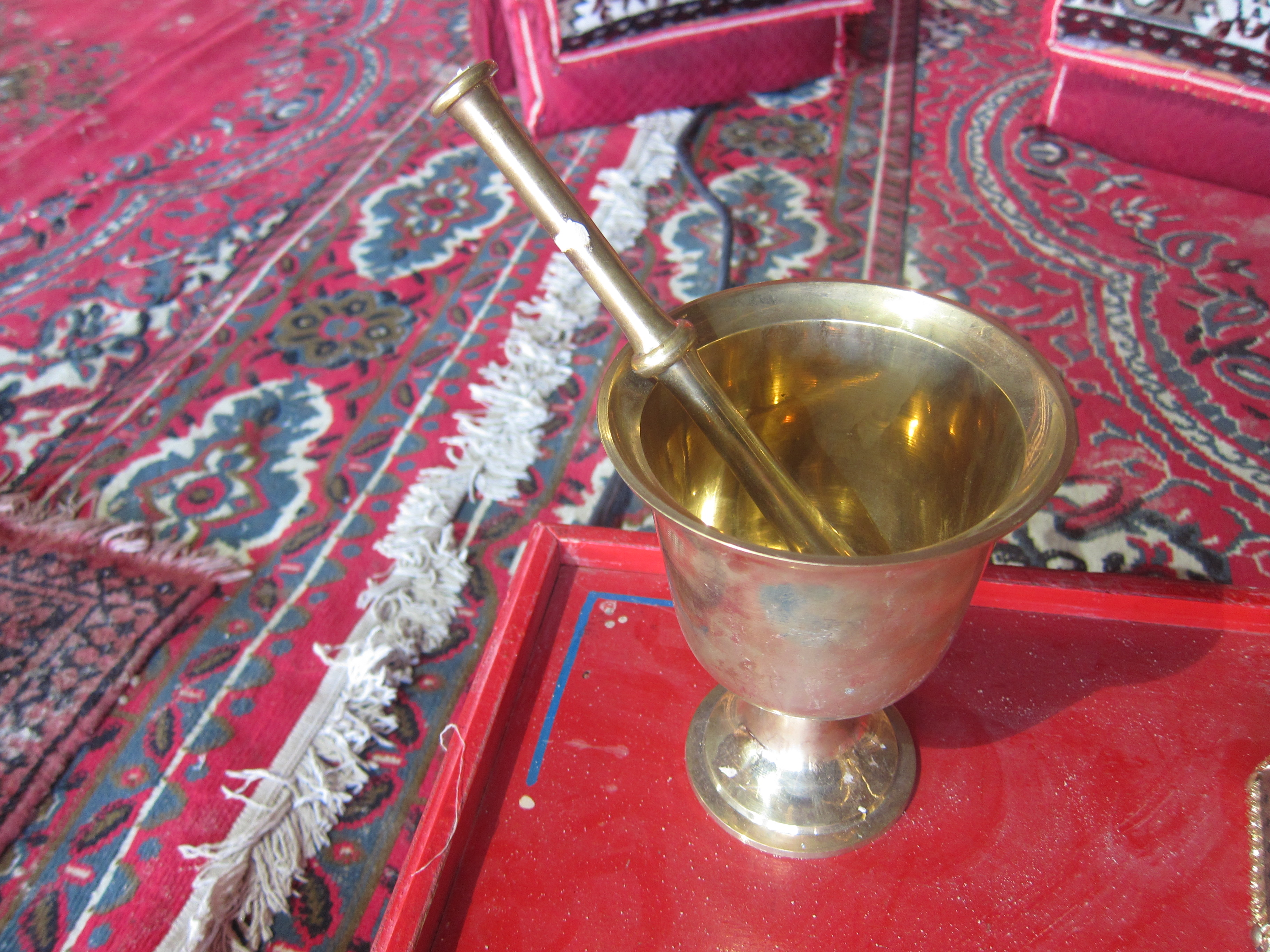 Saudi Culture - സൗദി സംസ്കാരം